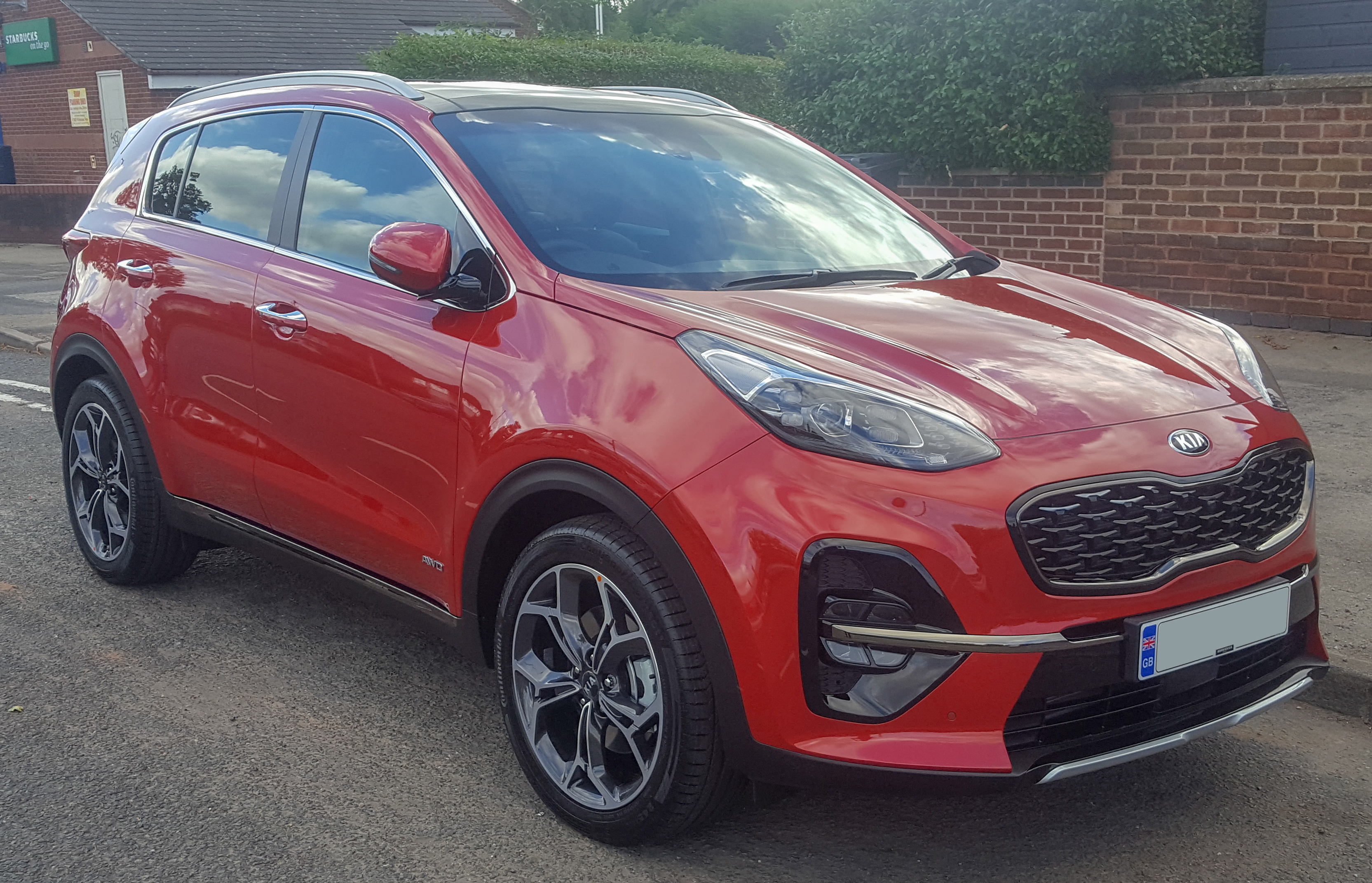 2018 Kia Sportage GT-Line S facelift Front Taken in Warwick